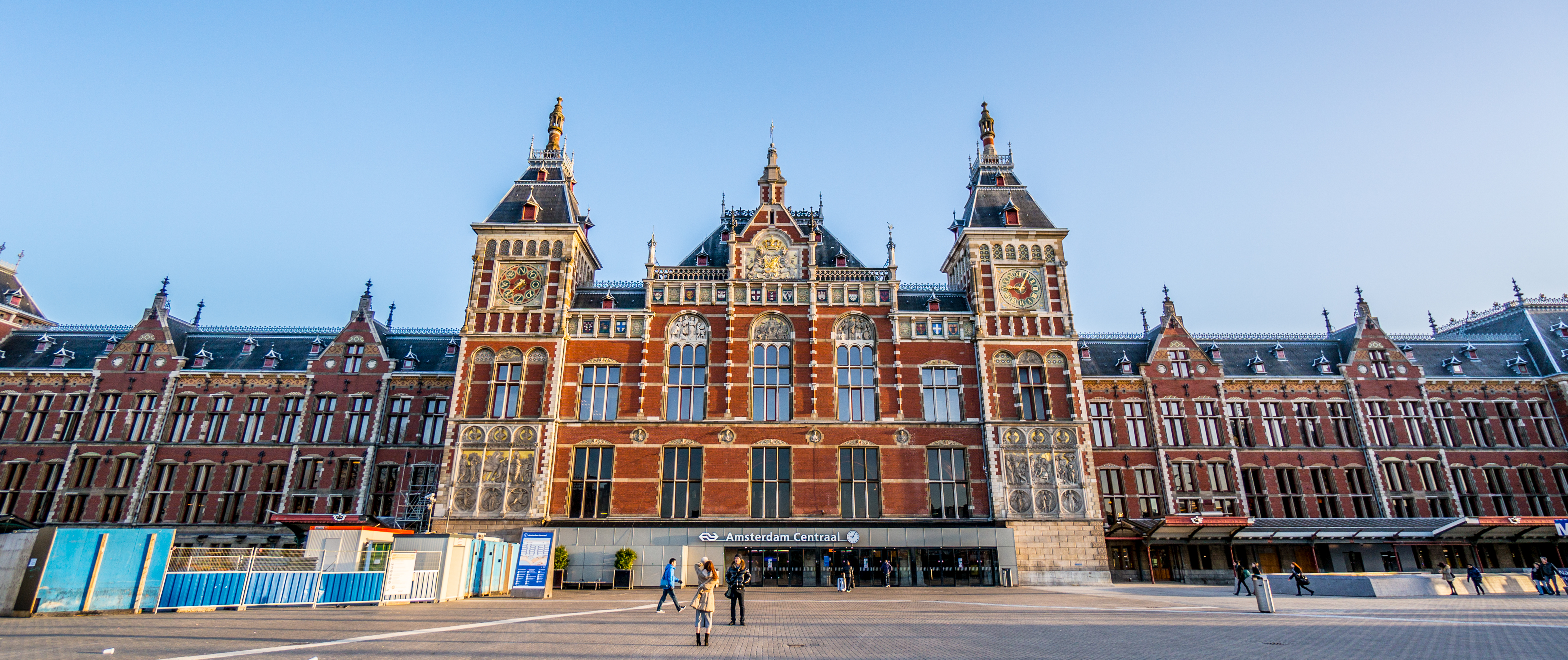 Amsterdam Central Station